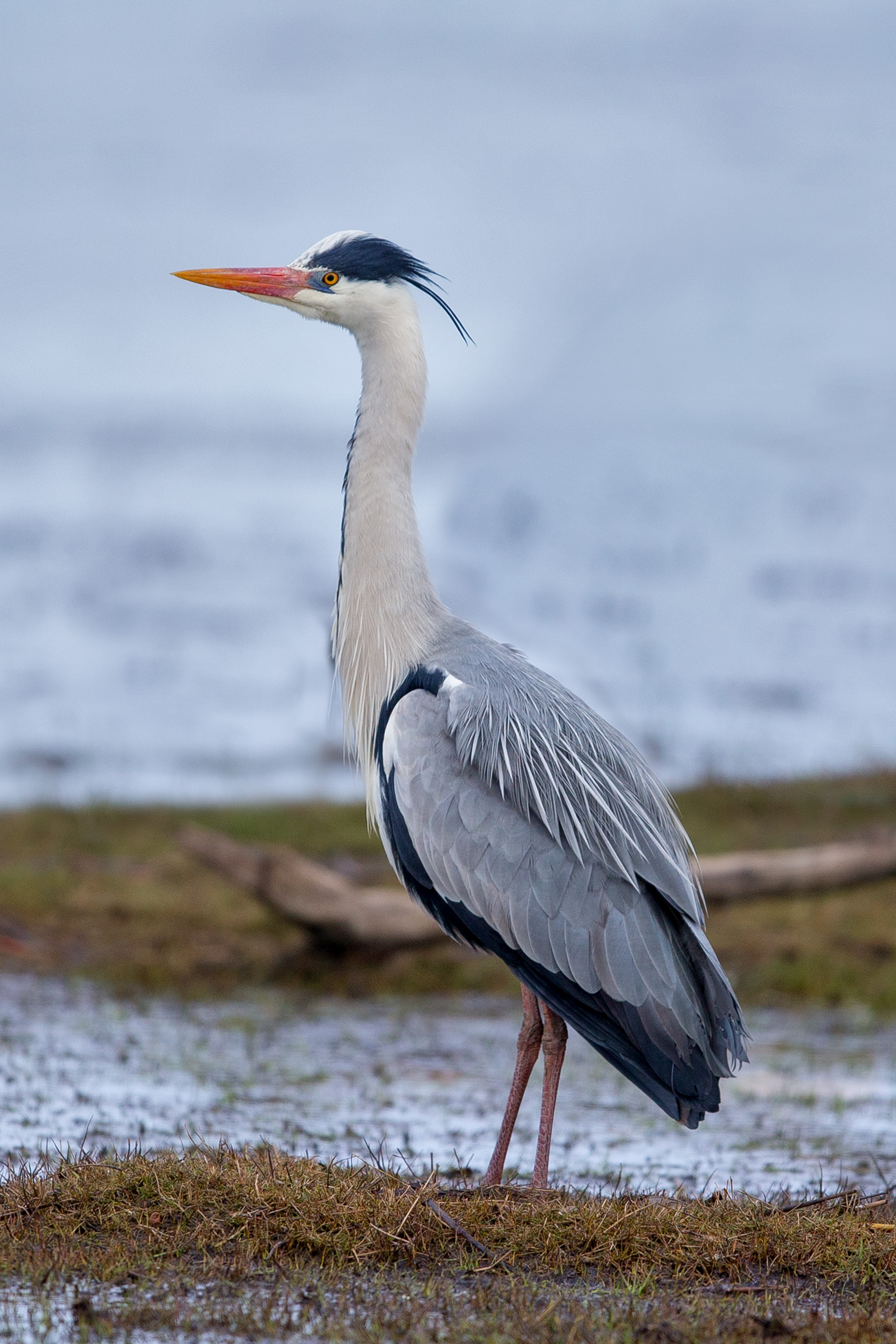 Grey Heron